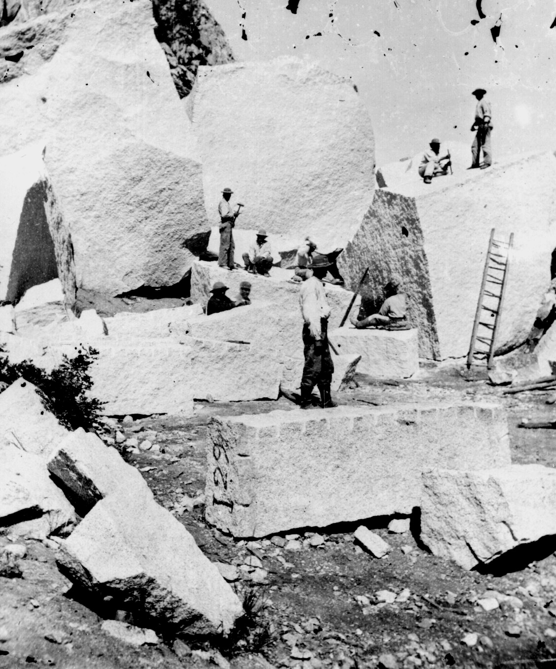 Quarrying granite for the Mormon Temple, Utah Territory, 1872. The ground is strewn with boulders and detached masses of granite, which have either fallen or have been hewn from the walls of Cottonwood Canyon. The quarrying consists of splitting up the stone into blocks that can be transported to the Salt Lake Temple construction site of The Church of Jesus Christ of Latter-day Saints. Local Identifier 57-HS-932 / ARC Identifier 517451. Source: US Archives American West photographs: image